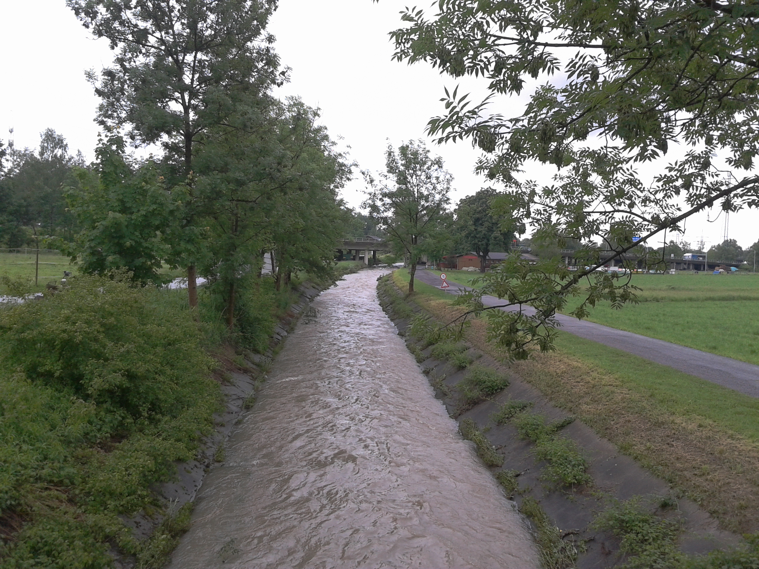 Fussenauer Kanal in the marsh (Ried) in Dornbirn, Vorarlberg, Austria, View to the Highway A14 on 26/05/2015 shortly after a damp (60 l / m² / h).